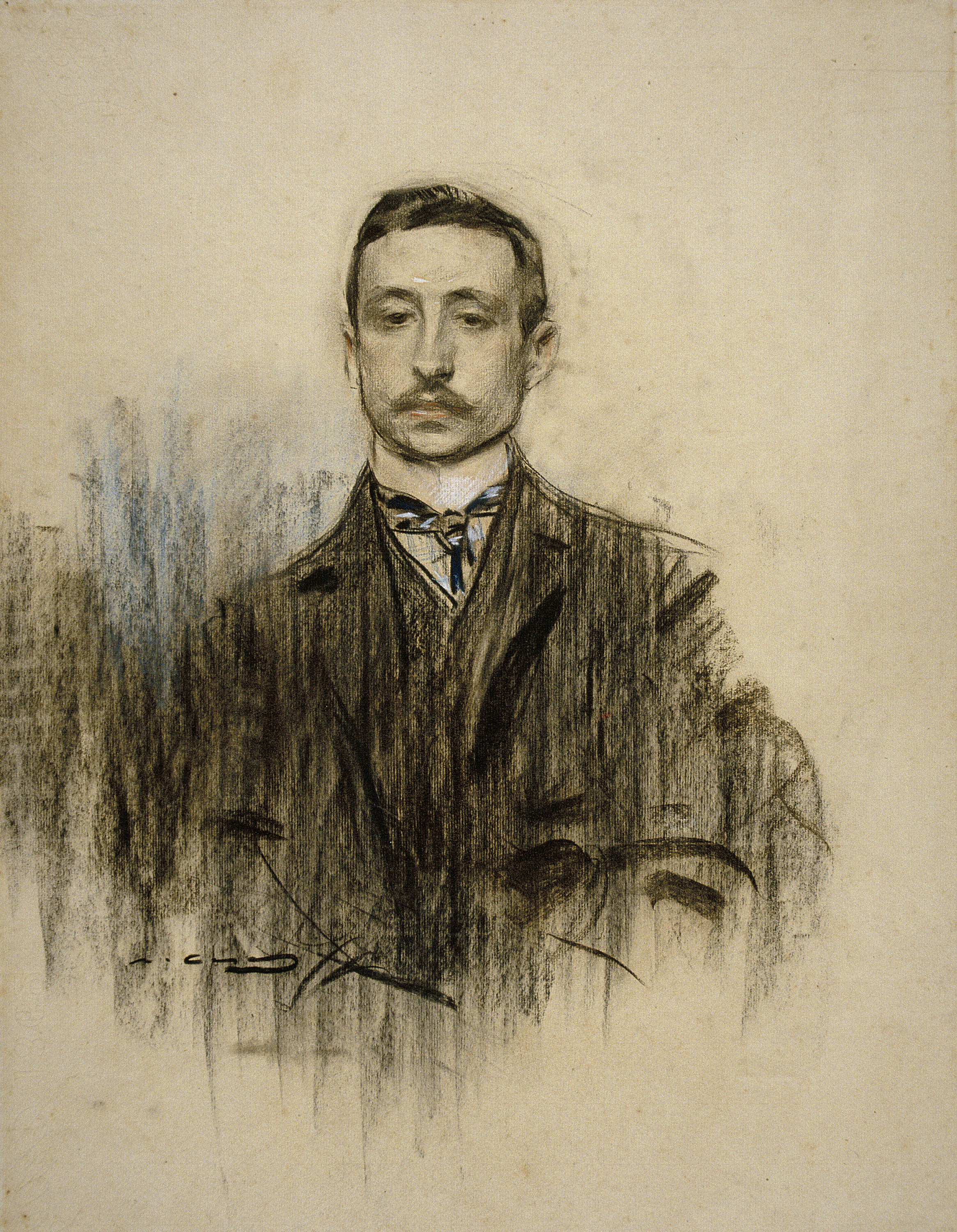 Portrait by Ramon Casas conserved at MNAC in Barcelona.